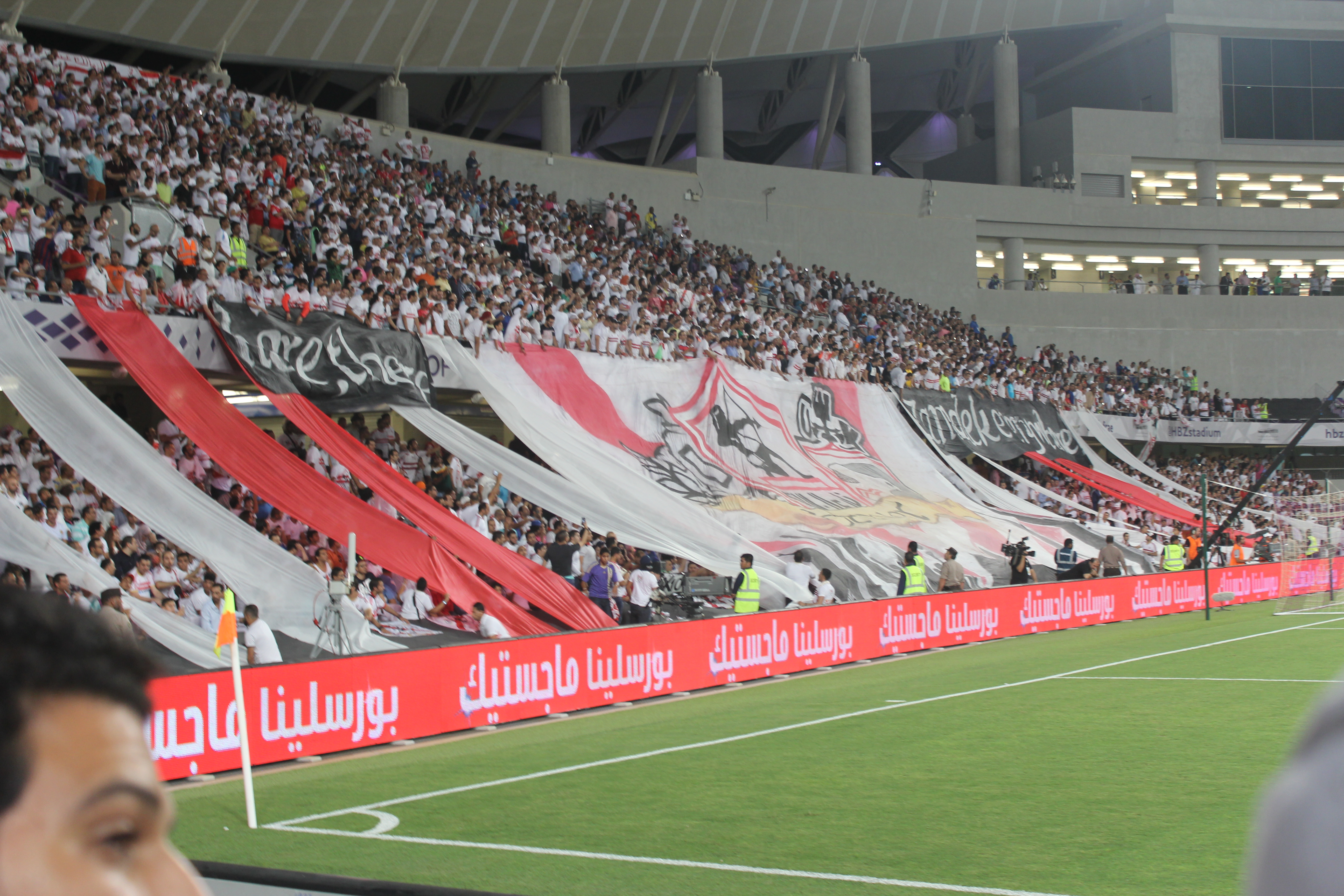 zamalek vs ahly